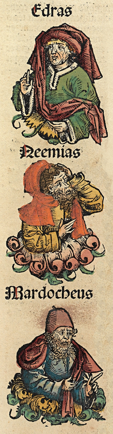 Woodcut from the Nuremberg Chronicle